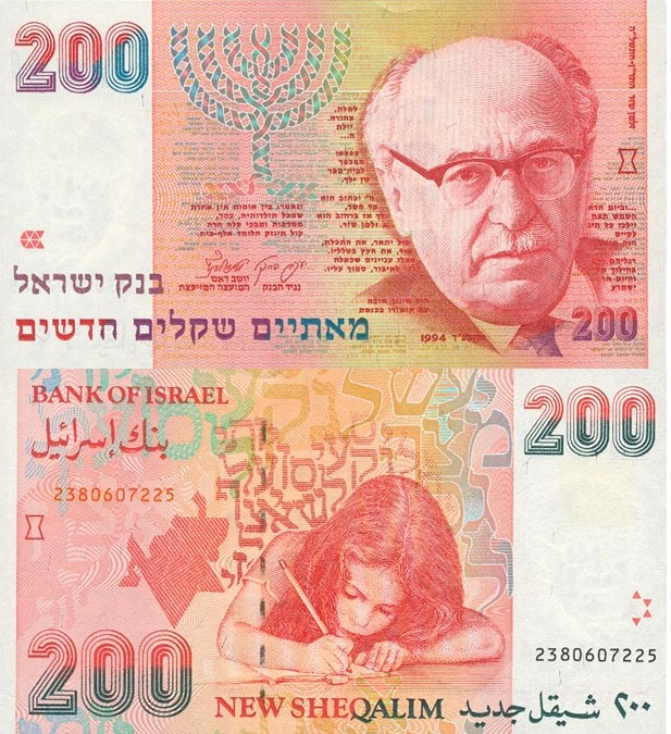 Obverse & Reverse side of a 200 new shekel bill, paper.